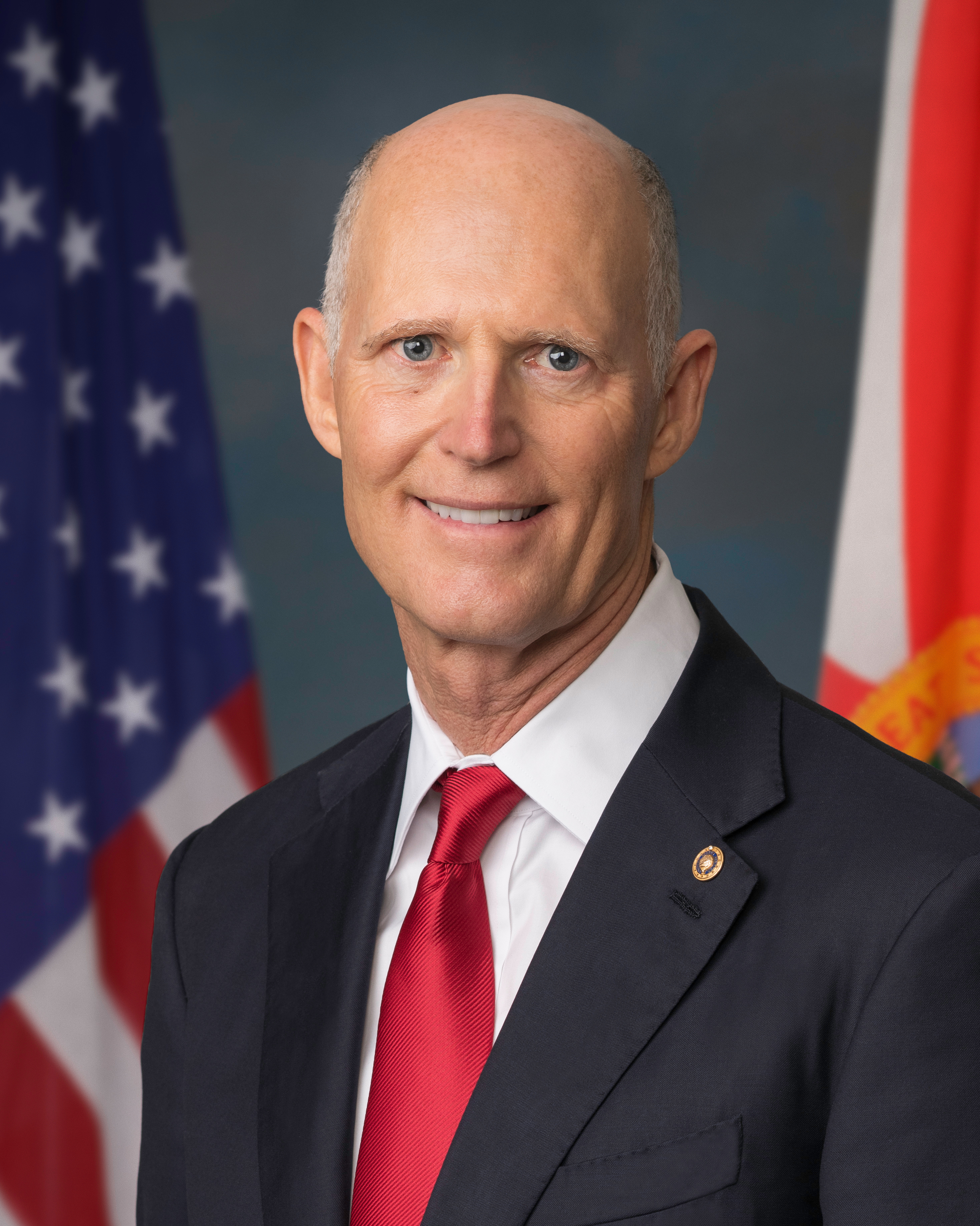 Official Portrait of Senator Rick Scott (R-FL)